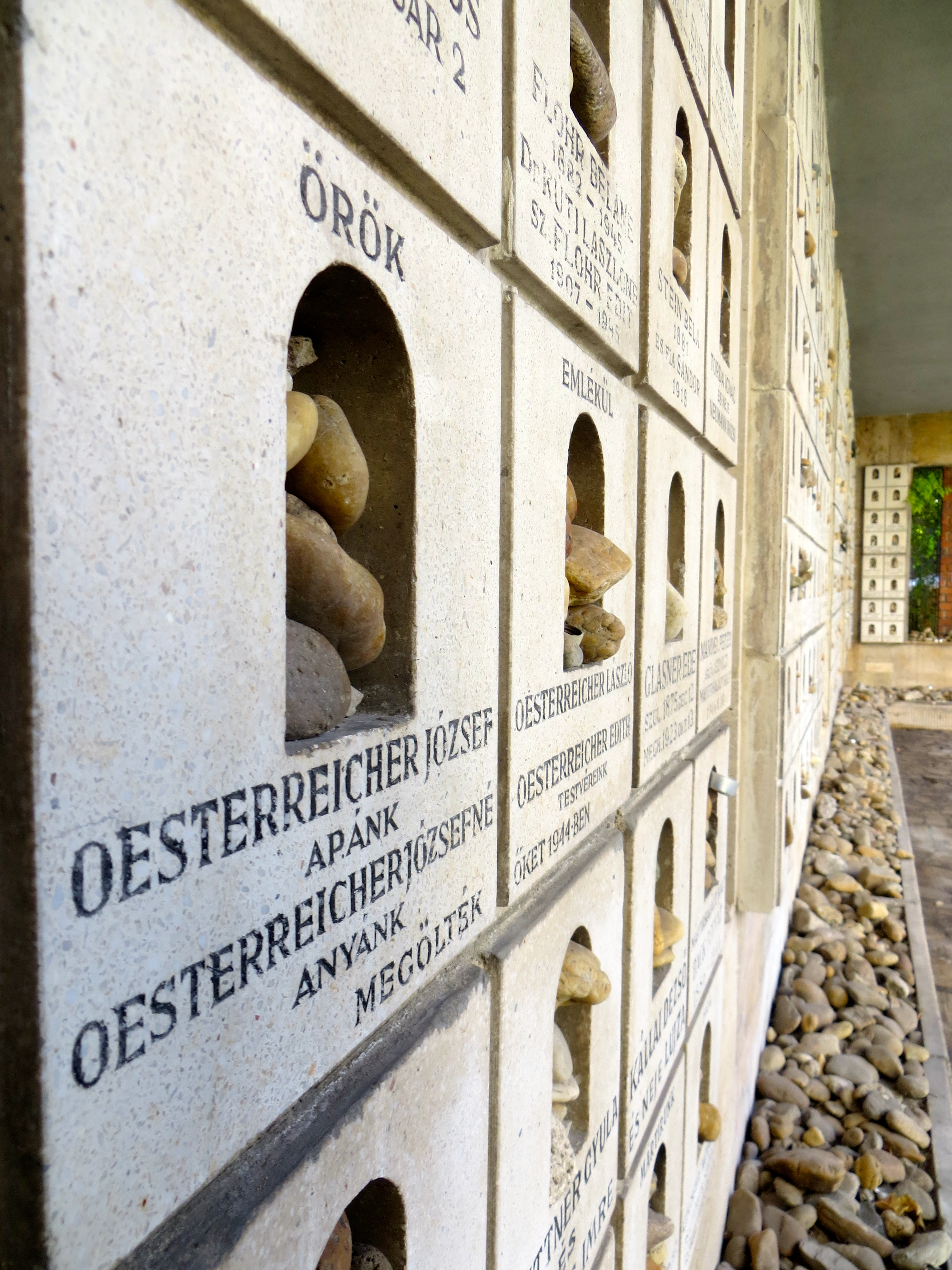 Stones placed in a memorial at the Dohany Street Synagogue in Budapest, Hungary.